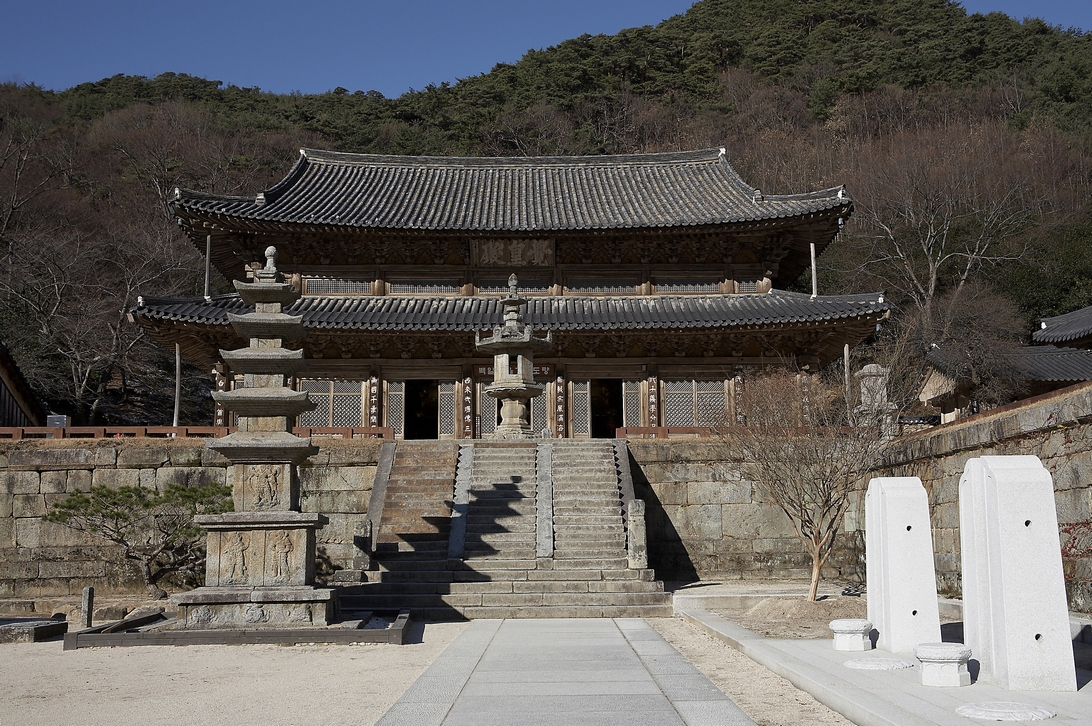 Hwaeom temple in South Korea